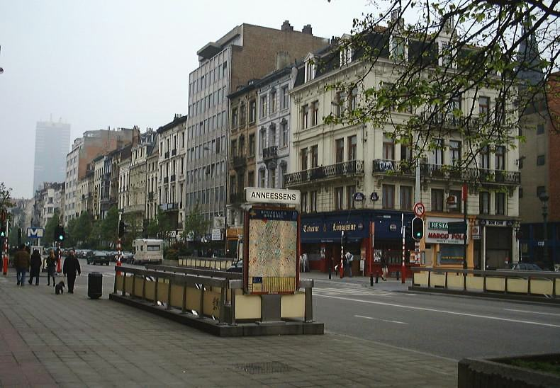 Entrance of Anneessens station, Brussels premetro